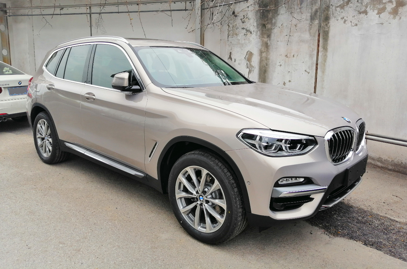 BMW X3 G08 photographed in Shanghai, China.